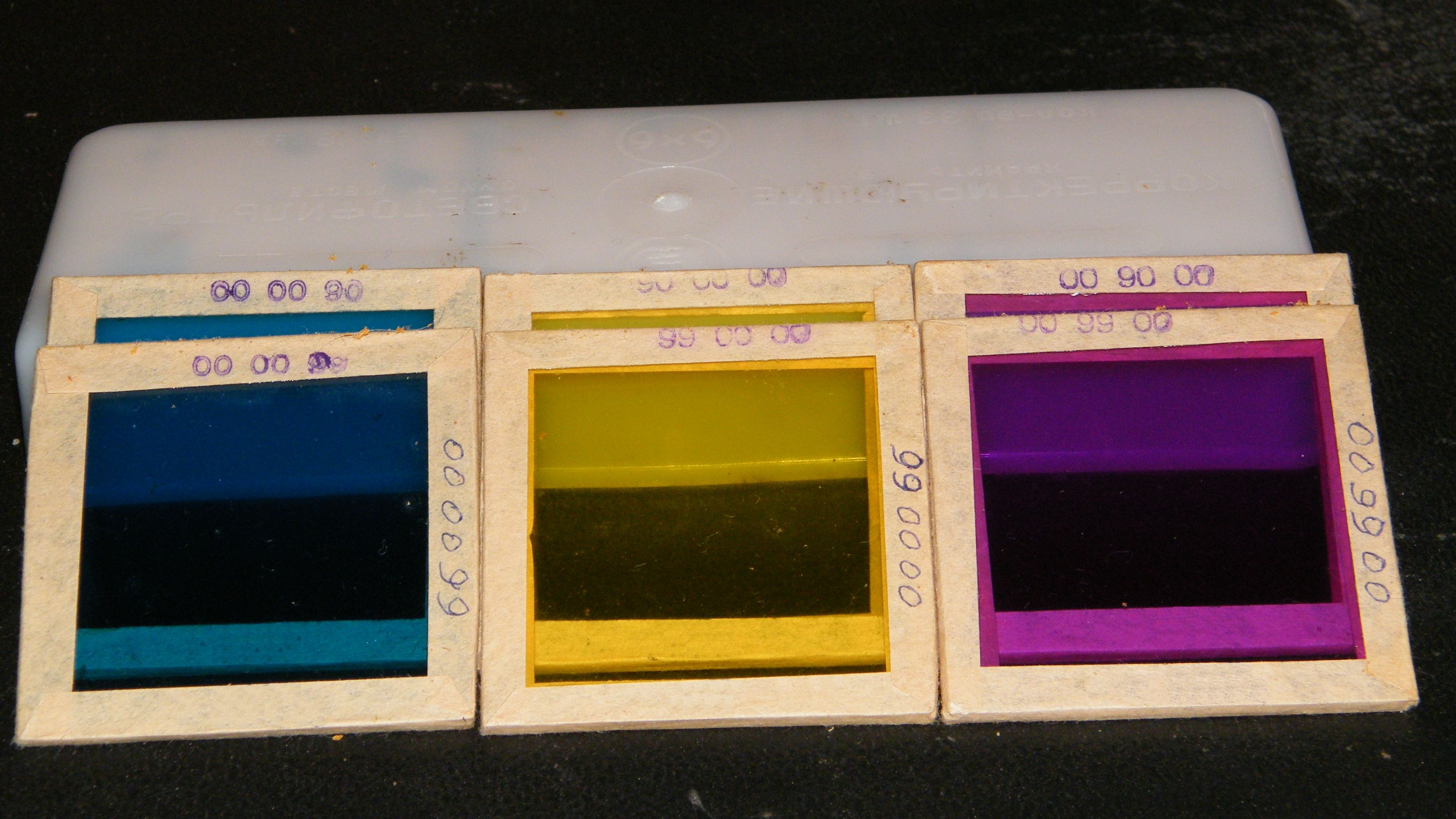 Корректирующие светофильтры размером 6 на 6